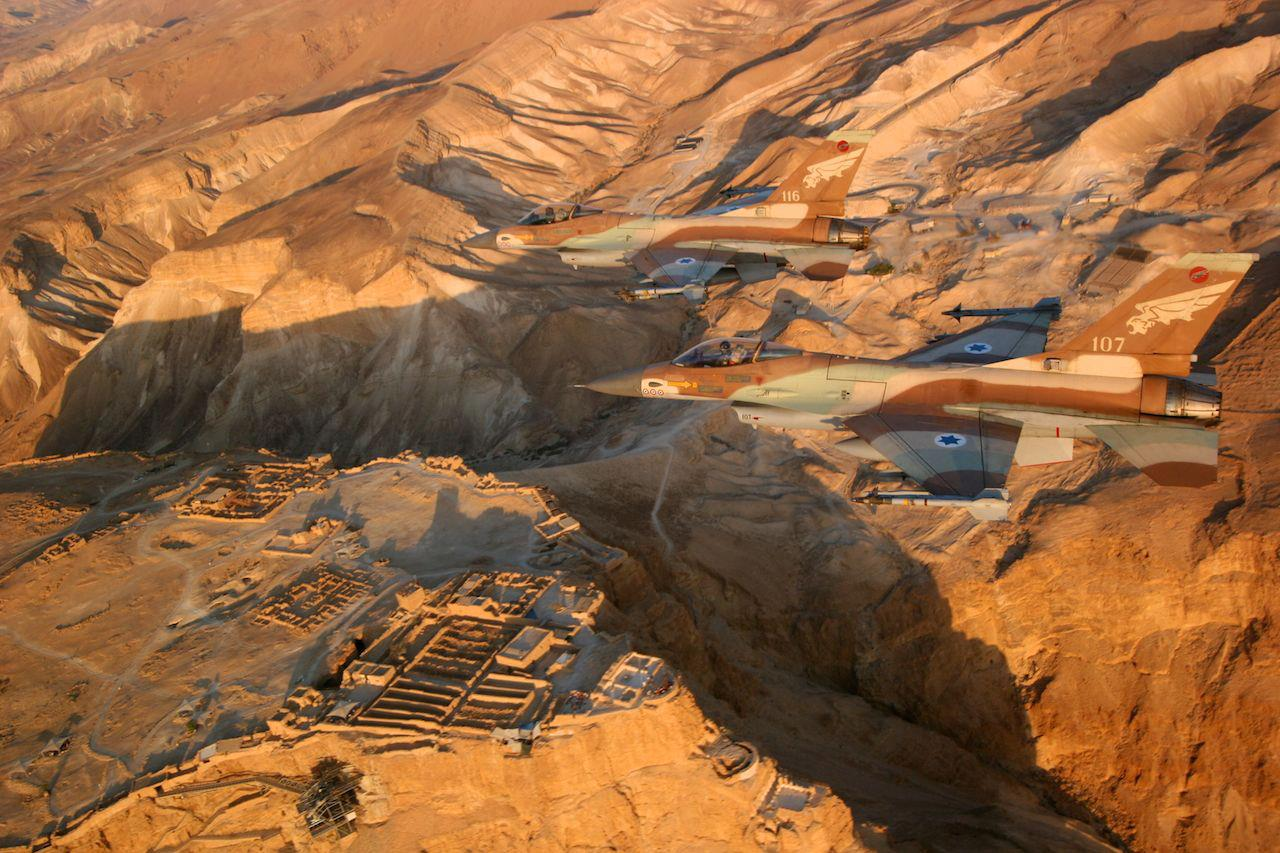 Israel Air Force F-16s fly over Masada. Featured as Photo of the Day on May 1, 2012 The Israel Defense Forces Facebook The Israel Defense Forces blog The Israel Defense Forces website Follow us on Twitter